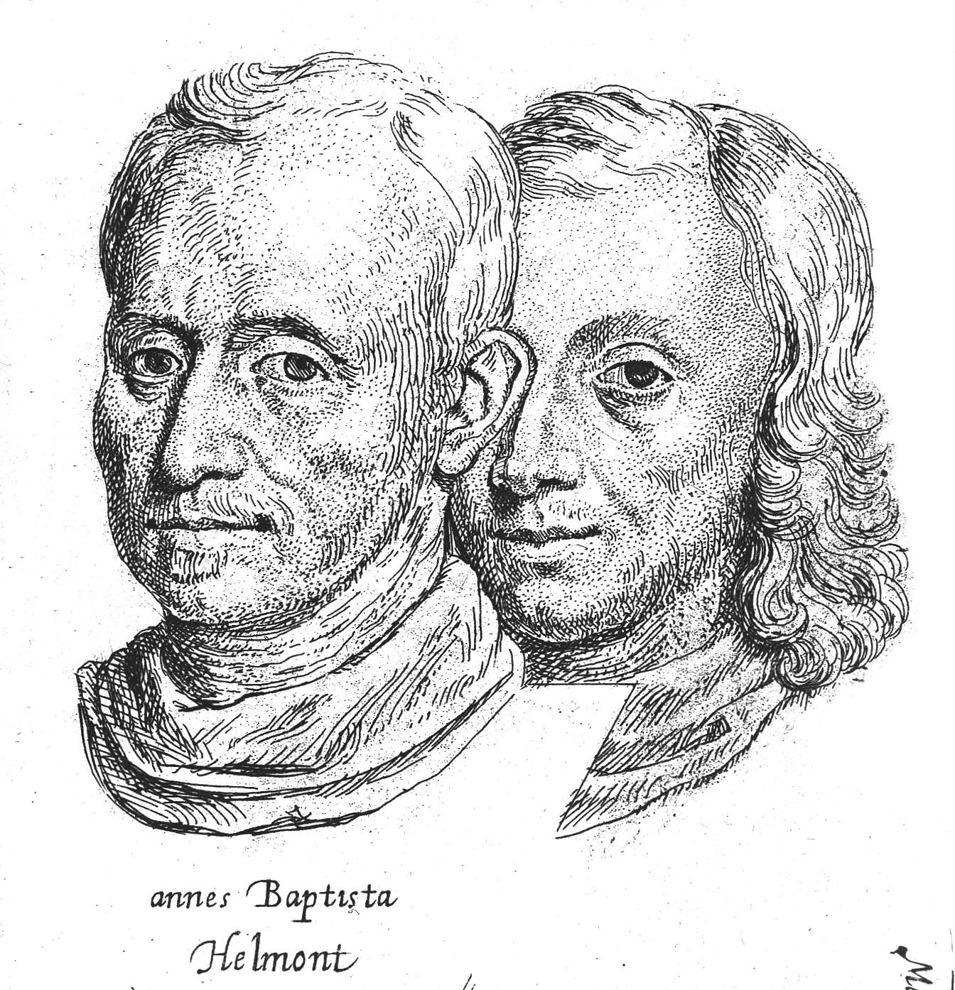 Detail: heads of J.B. and J.M. van Helmont. Rare Books Keywords: Jan Baptista van Helmont